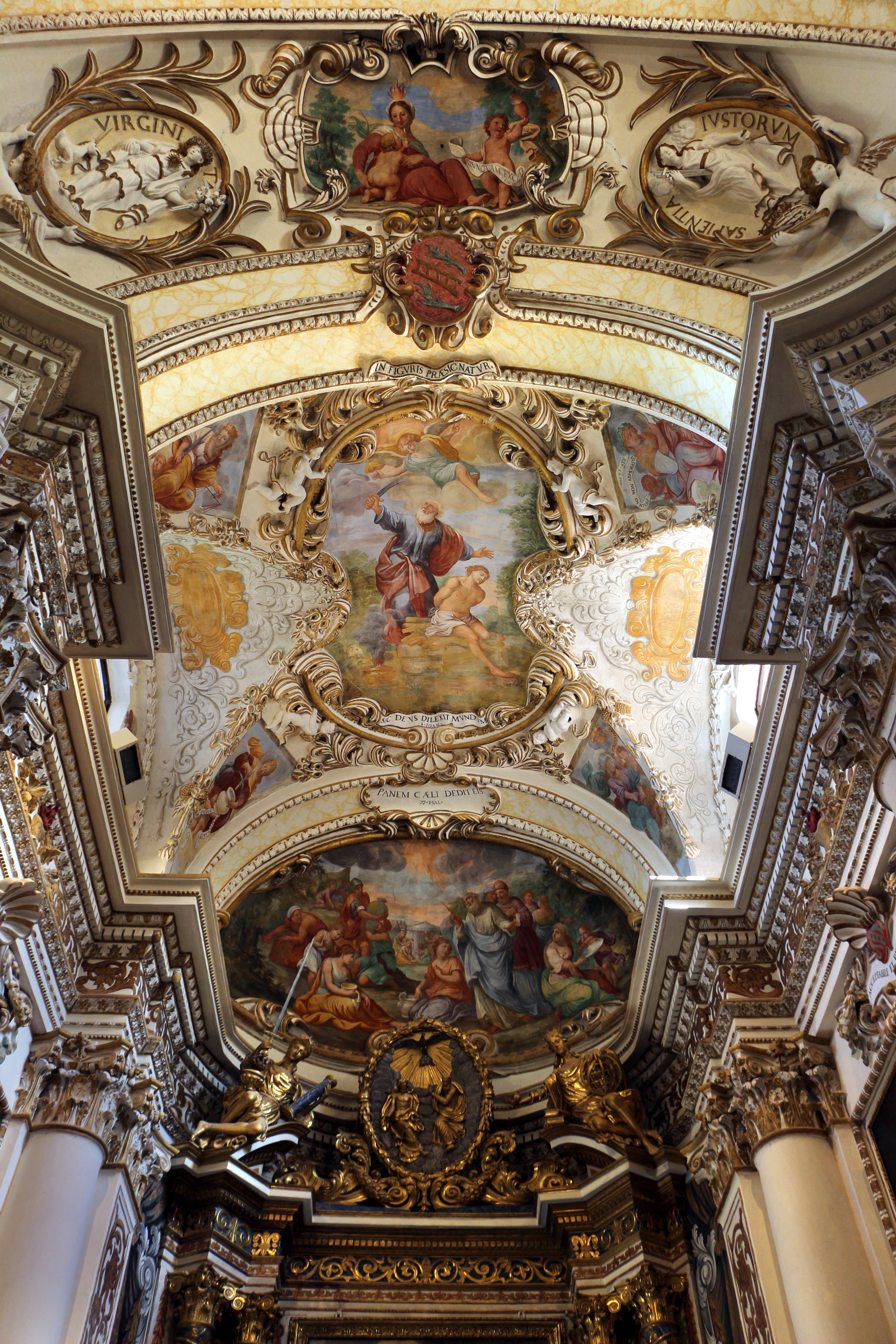 San Filippo Neri (Cingoli)